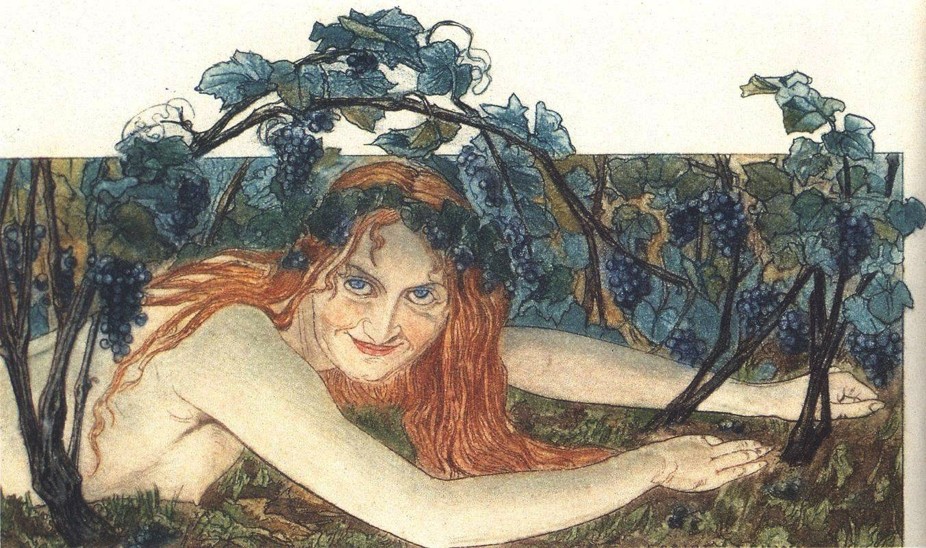 Altona (Germany)